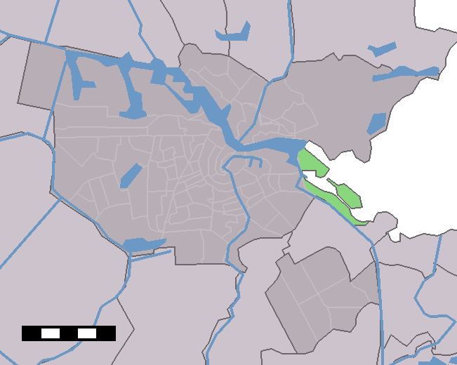 Location of neighbourhoods/districts in Amsterdam